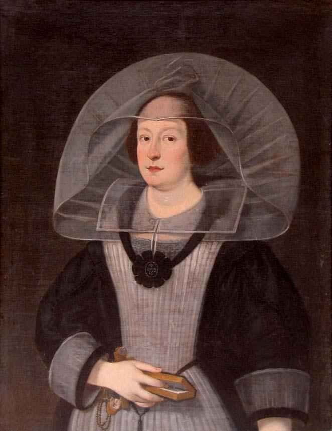 Portrait of Maria Gonzaga (1609-1660)